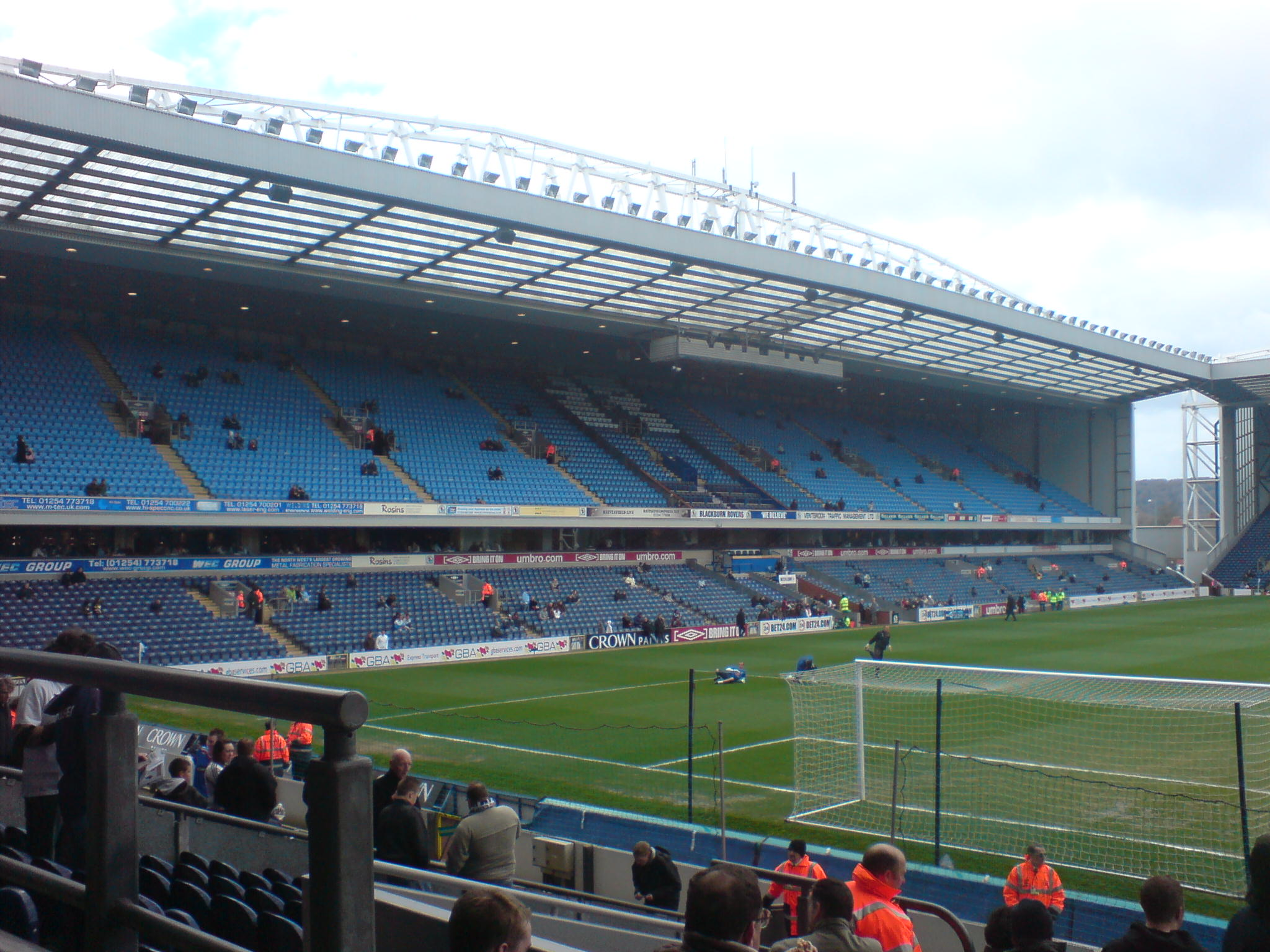 Named after Jack Walker their former chairman who bank rolled them to the league in 1995